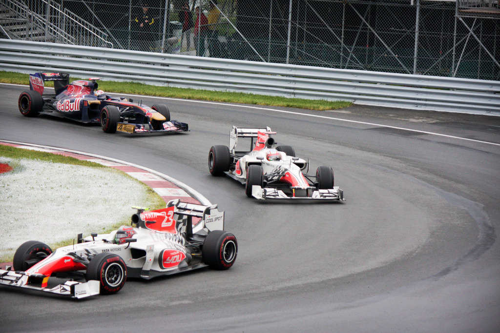 HRT team, Canadian GP, 2011